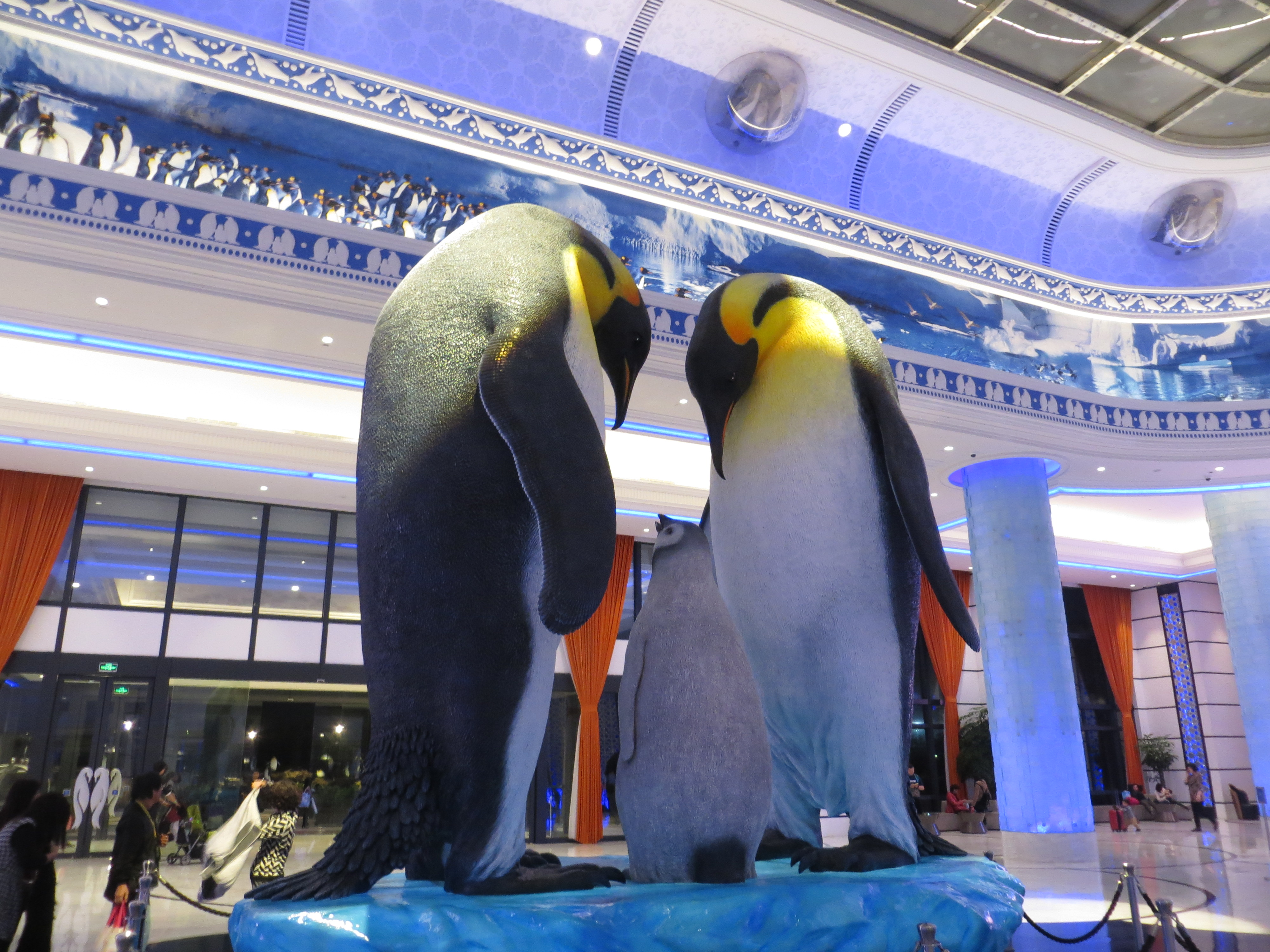 Chimelong Penguin Hotel Lobby 中文（香港）: 長隆企鵝酒店大堂